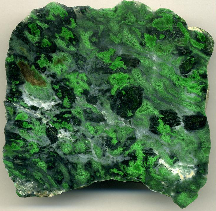 Kosmochlor jade ("maw sit sit") (8.0 cm across along the base) from the Hpakan-Tawmaw Jade Tract (near-latest Jurassic, 147 m.y.) of northern Burma. Maw sit sit is a very rare, complex, polymineralic metamorphic rock. Minerals reported in this material include chromite (metallic black, FeCr2O4), kosmochlor pyroxene (emerald green to dark green to black, NaCrSi2O6), chromian jadeite pyroxene (green, Na(Al,Fe,Cr)Si2O6), chromiferous arfvedsonite amphibole (green or gray, Cr-bearing NaNa2Fe5Si8O22(OH)2), symplectite (green, a finely-crystalline mineral mix of mostly chromian jadeite). Reported matrix minerals include thompsonite zeolite, albite feldspar, or serpentine. Maw sit sit formed under high pressure and low temperature conditions at the rim of serpentinized, chromiferous mantle peridotites. The peridotites were emplaced by obduction as oceanic lithosphere was subducting beneath the Burmese portion of southeastern Asia during the Mesozoic. Geologic unit: northeastern end of the Hpakan-Tawmaw Jade Tract, Hpakan Ultramafic Body, Naga-Adaman Ophiolite. Metamorphic age: late Tithonian Stage, near-latest Jurassic, 147 m.y. Locality: apparently an alluvial clast derived from the Namshamaw Deposit ("Namshamaw Dike"; "Maw Sit Sit Vein") at Maw Sit Sit, just northwest of Namshamaw, near Kansi (Kanzi), western Kachin State, Indo-Burma Range, northern Burma. Photo from & info. synthesized by James St. John (School of Earth Sciences, Ohio State University at Newark; Newark, Ohio, USA).